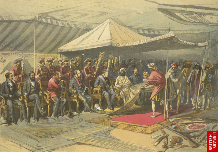 Viceroy Lord Canning meets Maharaja Ranbir Singh of Kashmir, 9 March 1860.